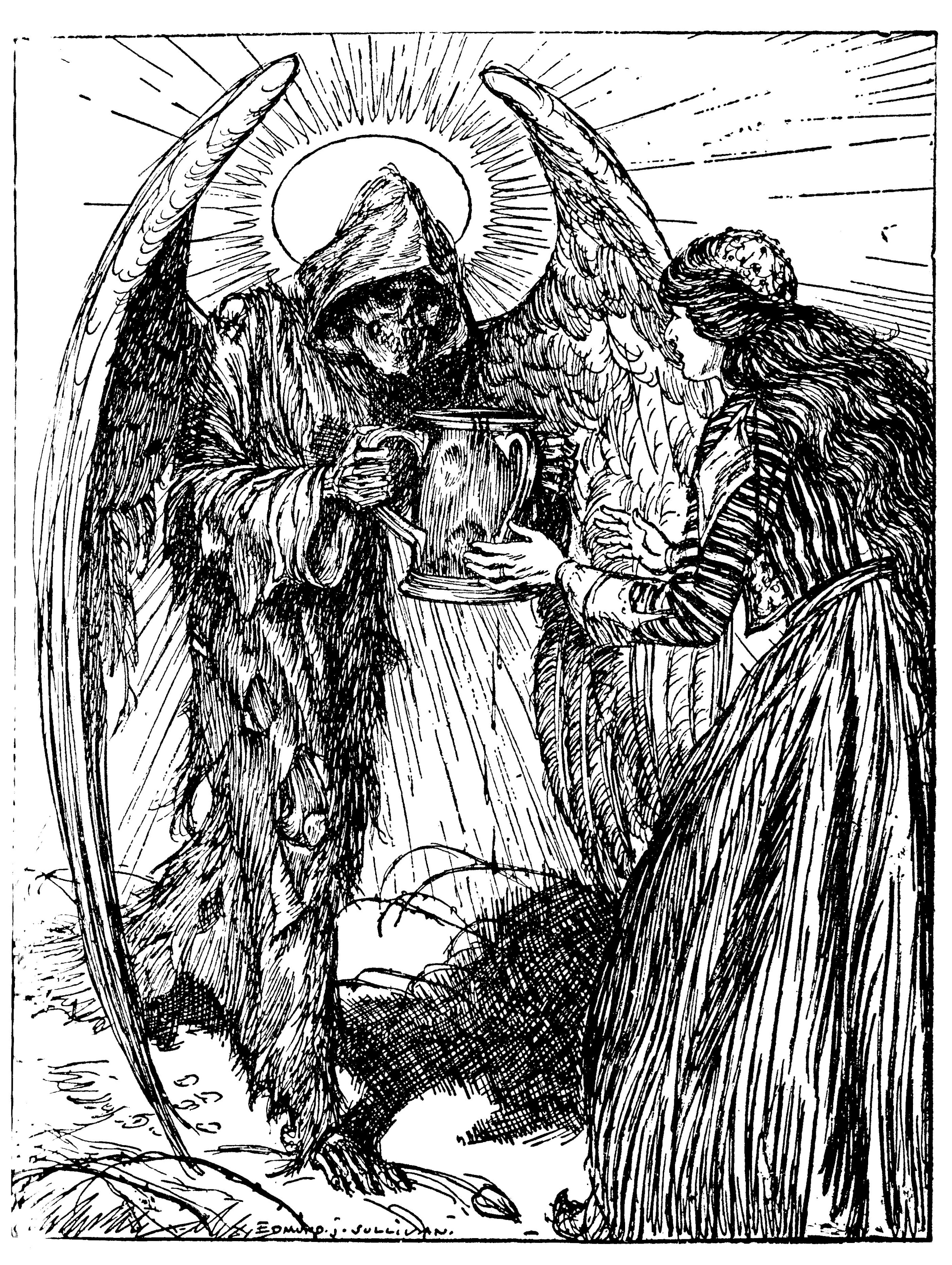 This is a quatrain illustration by Edmund J. Sullivan to the Rubaiyat of Omar Khayyam, First Version (translated by Edward Fitzgerald).